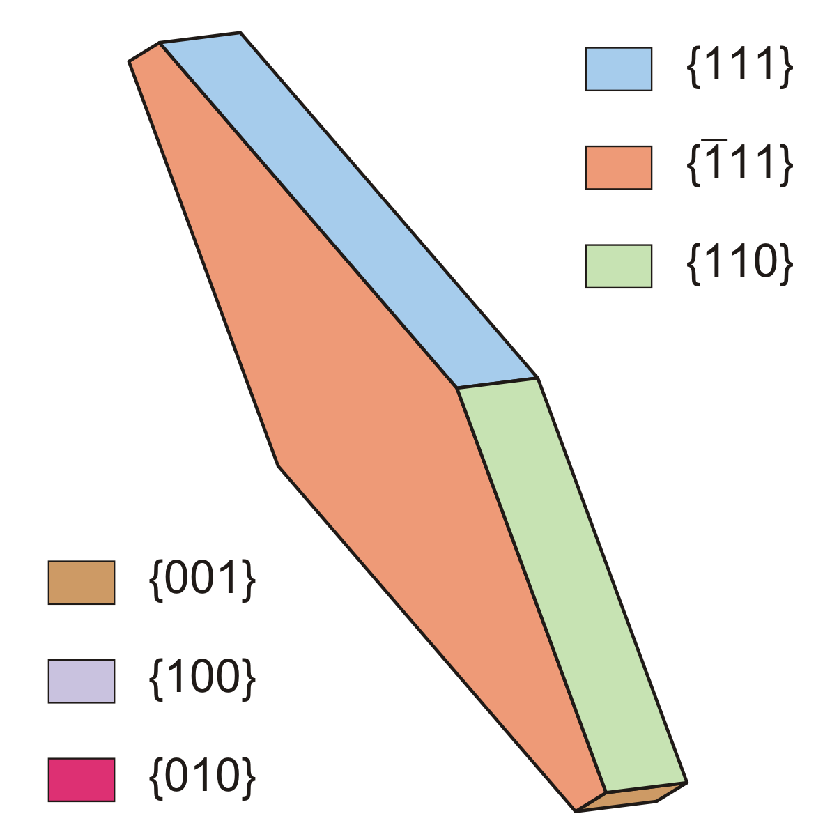 drawing of a zincgartrellite crystal with crystal forms {-111}, {111}, {110} und {001}; reference: U. Baumgärtl in